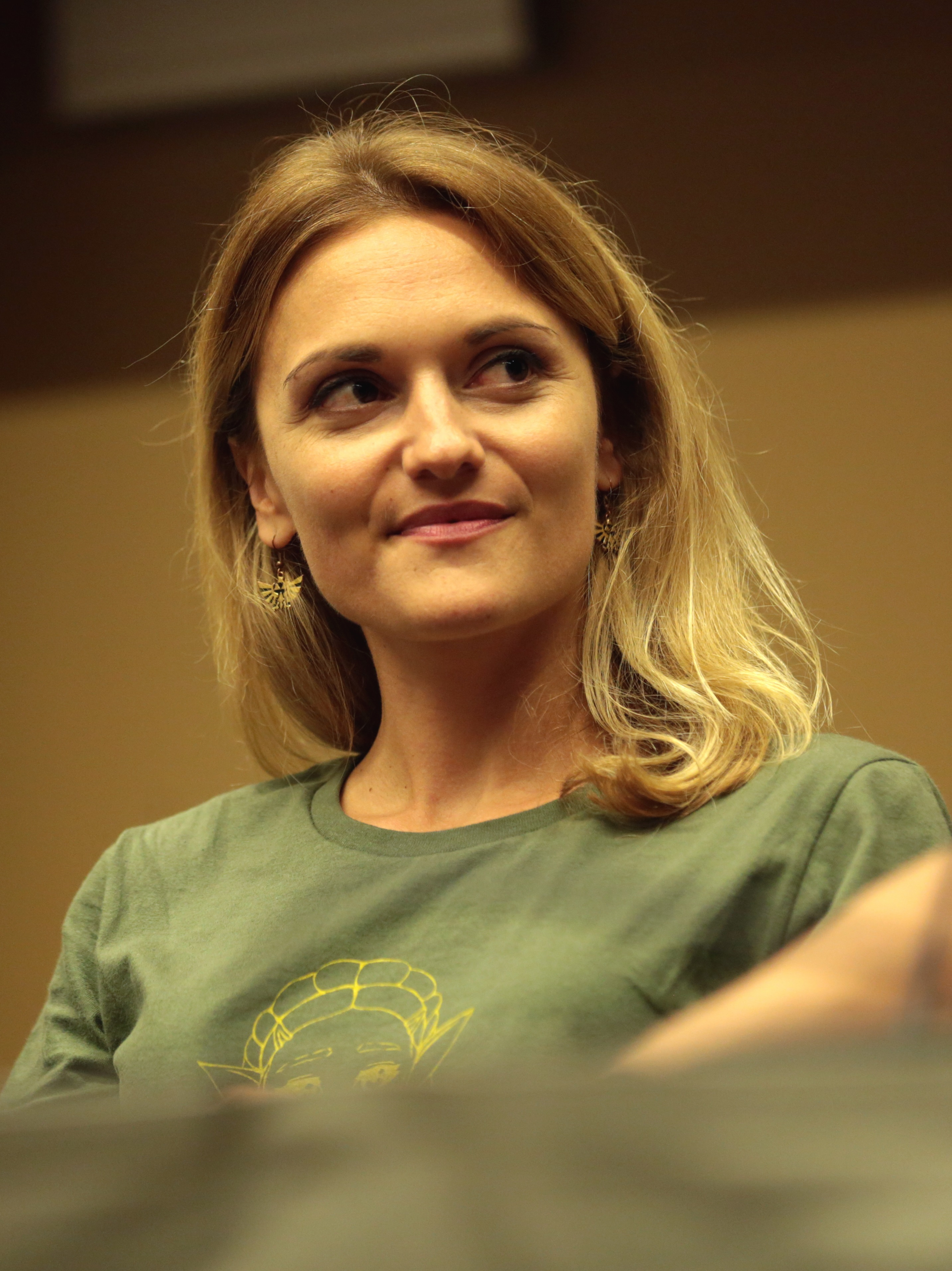 Patricia Summersett speaking with attendees at the 2017 Game On Expo at the Phoenix Convention Center in Phoenix, Arizona.